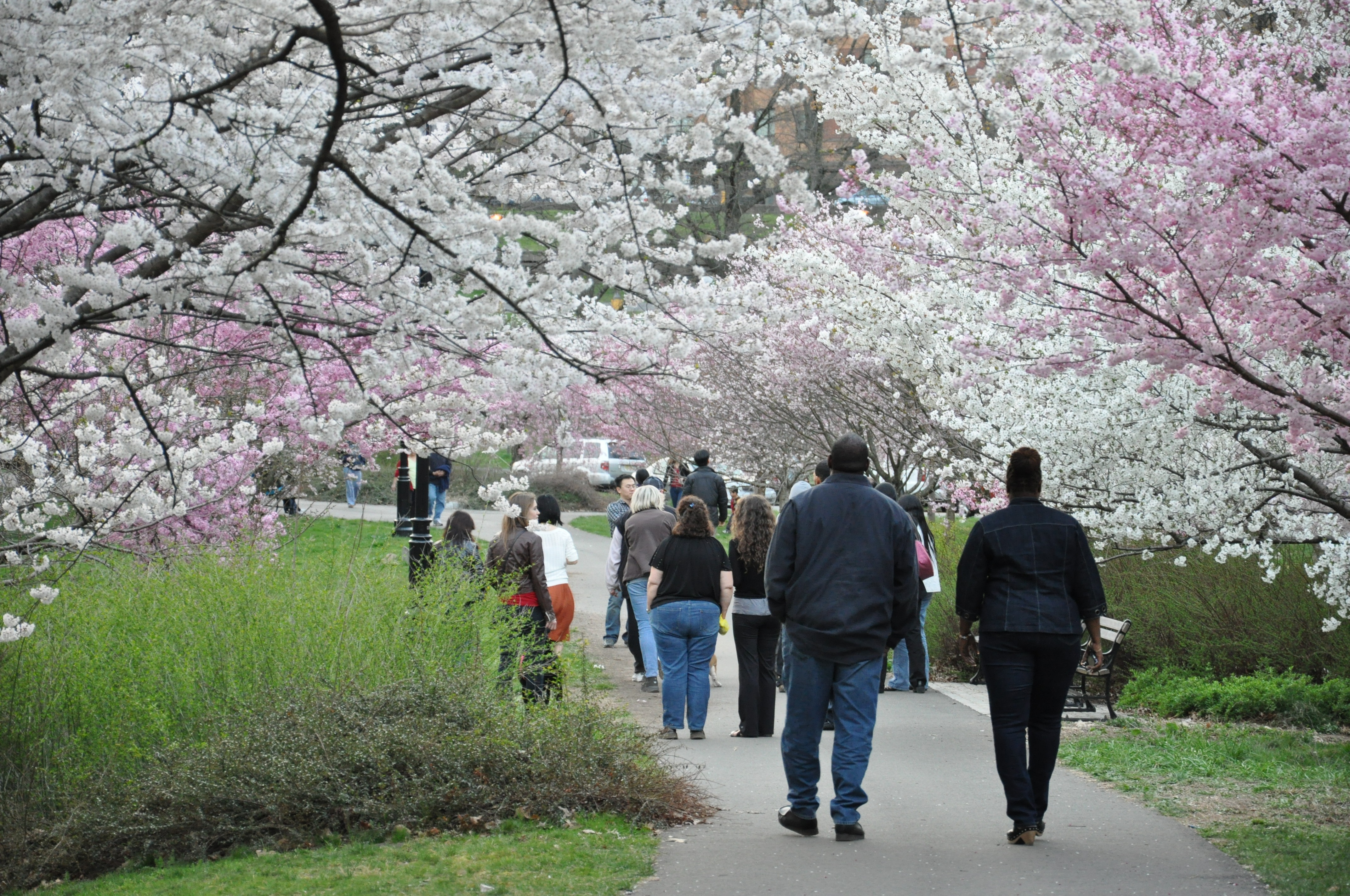 Cherry Blossom in Branch Brook Park, Newark, NJ - 2012